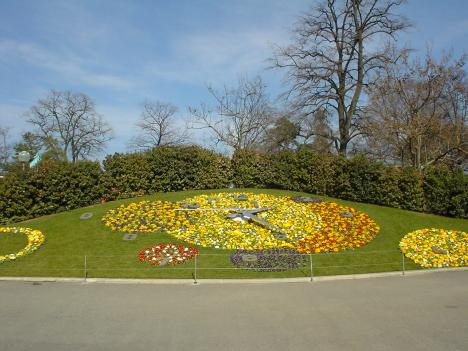 Flower Clock in Geneva